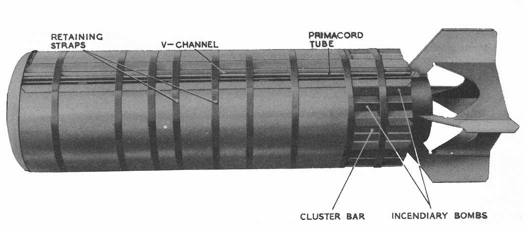 500 lb cluster bomb AN-M14 and AN-M17 fitted for 4 lb incendiary bombs (AN-M50)